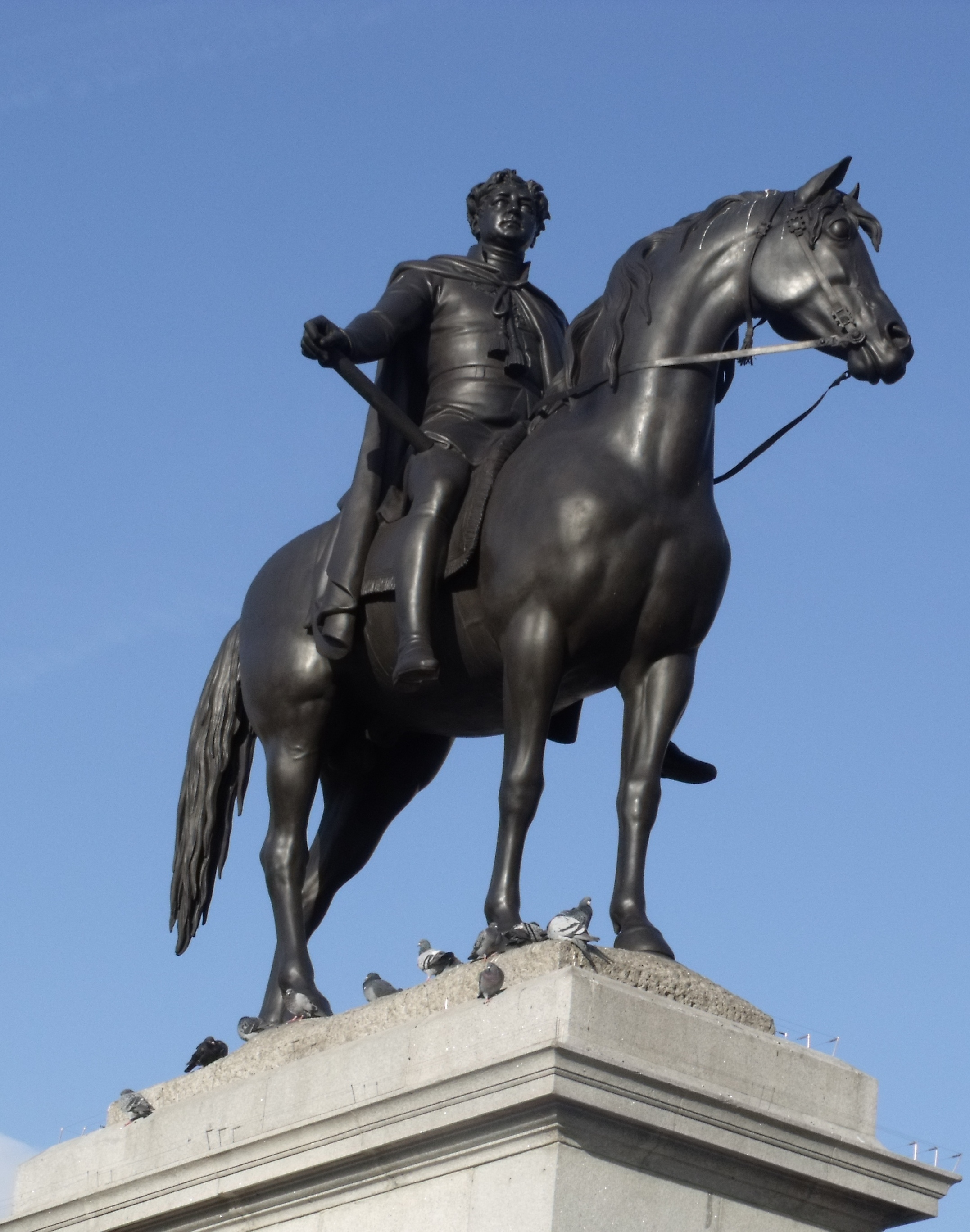 Cropped version of File:Statue of King George IV in Trafalgar Square, London.jpg